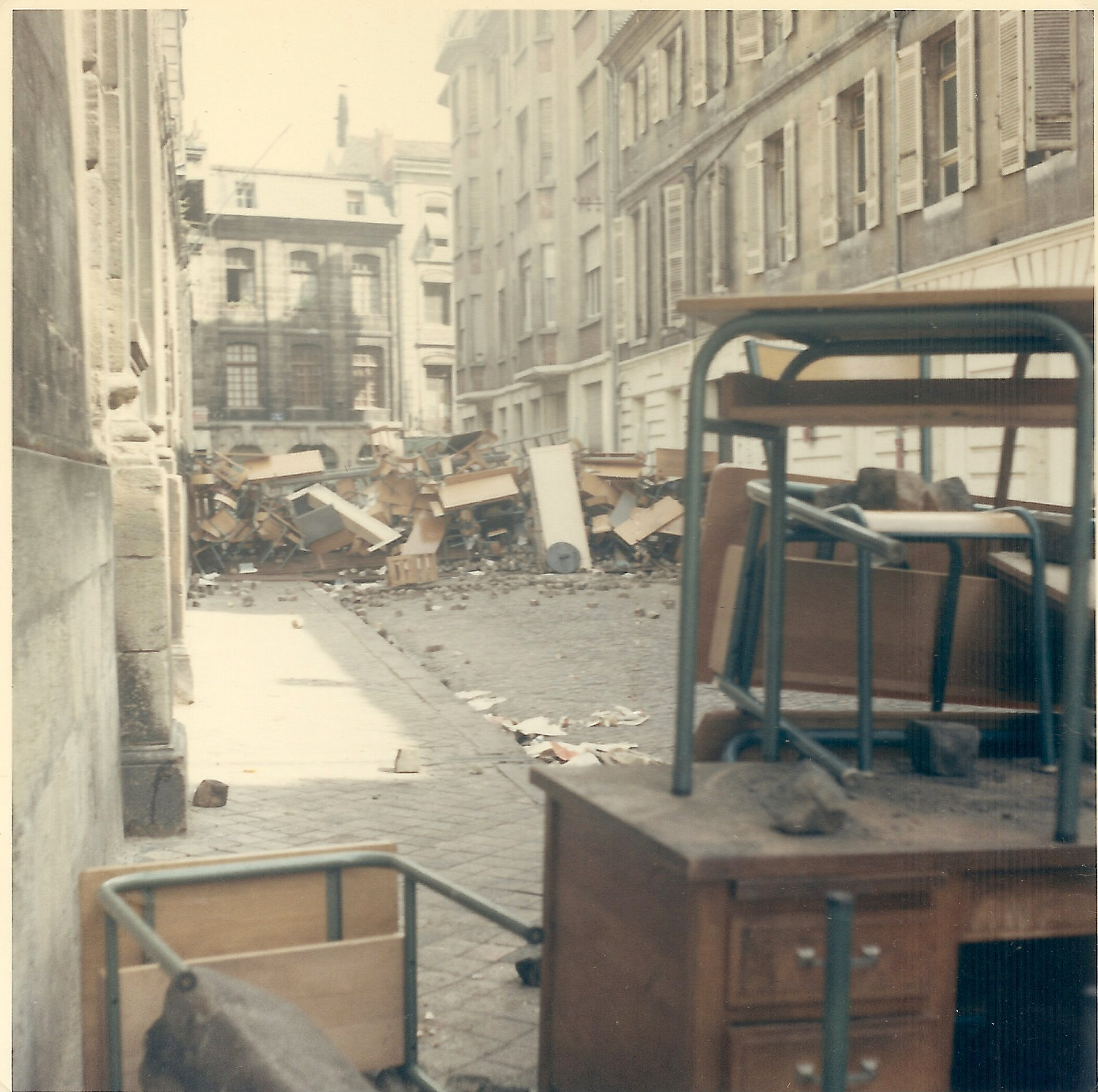 Demonstrations of may 1968 in Bordeaux (Gironde, France) - Rue Paul-Bert.